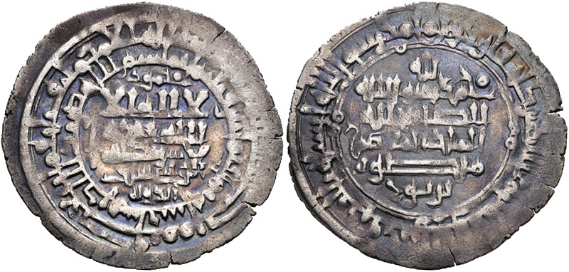 Ghaznavid coin citing the Samanid ruler Mansur II as overlord.